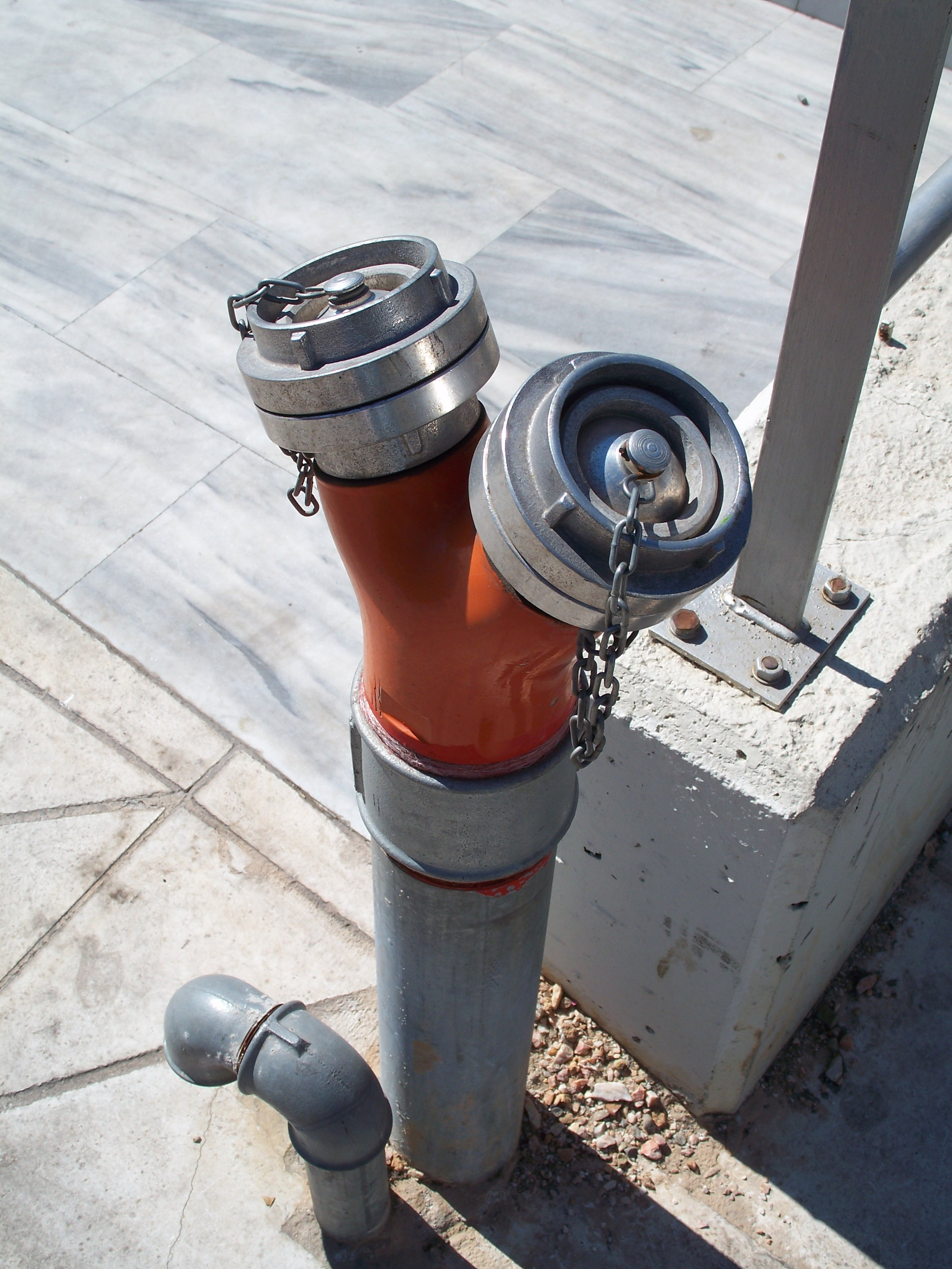 An external sprinkler access of a subterranean parking lot in Athens, Greece.